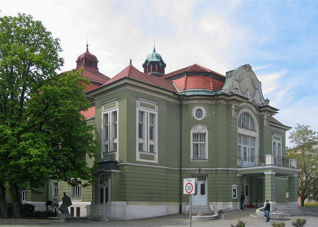 The Drama theater, Ljubljana photo:Ziga 10:23, 27 April 2006 (UTC)